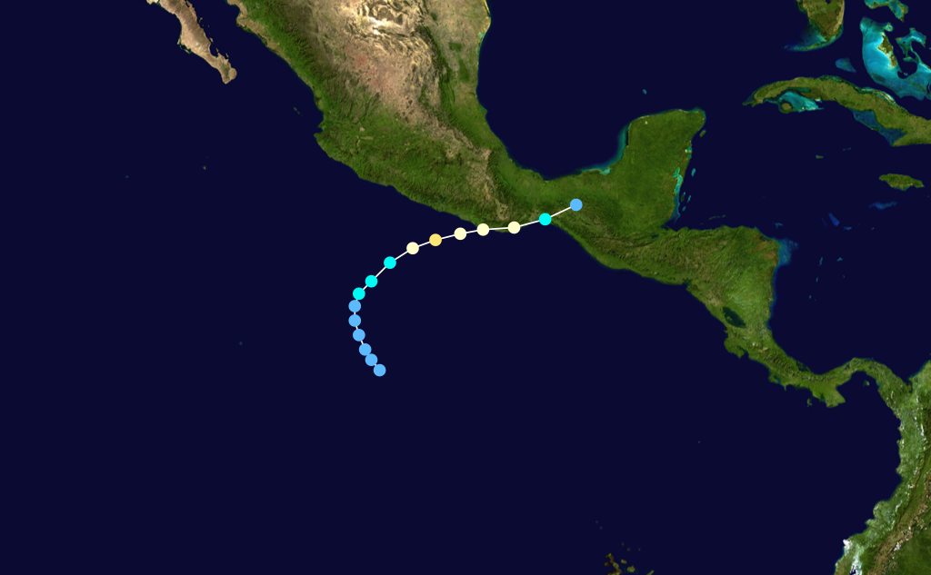 Hurricane Rick (1997) track. Uses the color scheme from the Saffir-Simpson Hurricane Scale.